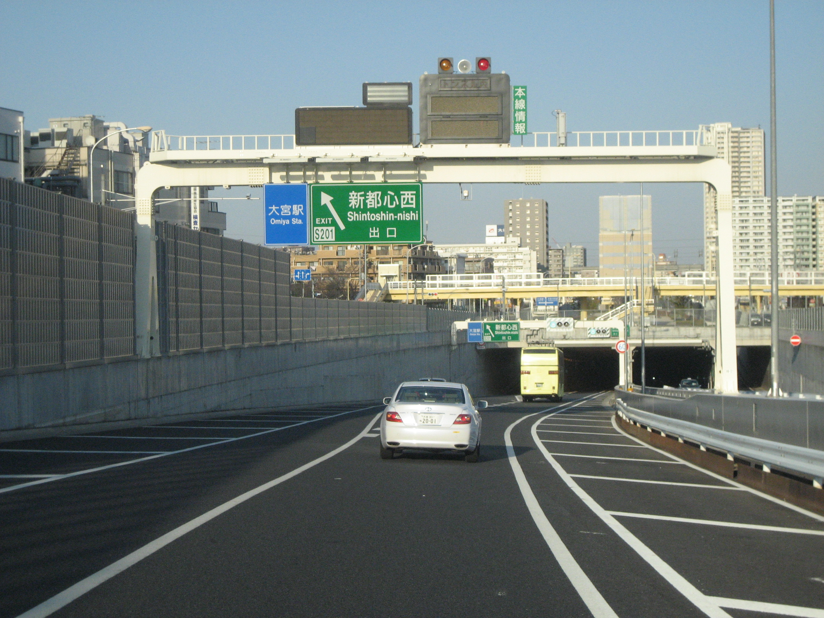 Shintoshin-nishi Interchange on the Metropolitan Expressway Route S2